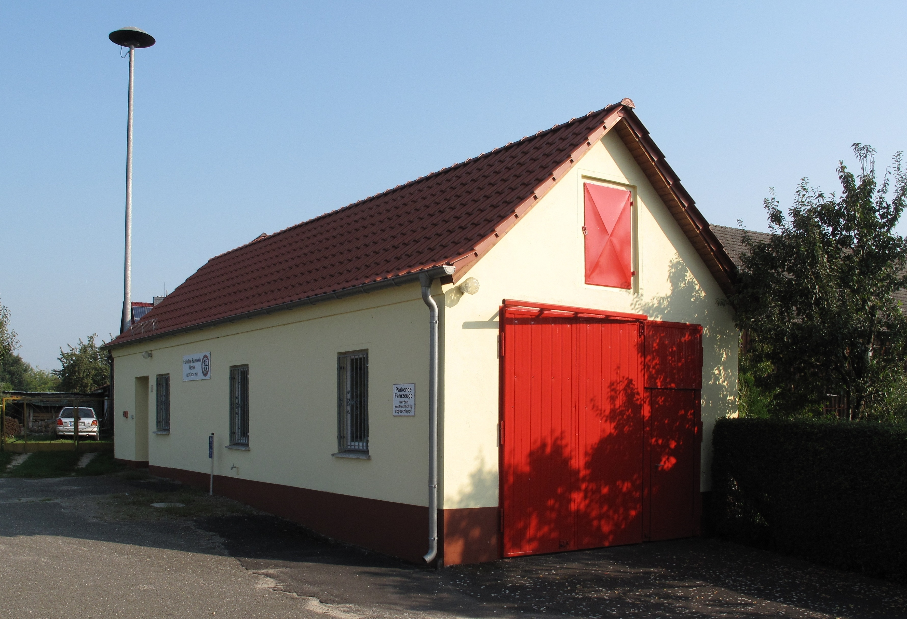 Volunteer fire department in the village Werder, a part of the municipality Tauche in the District Oder-Spree, Brandenburg, Germany.